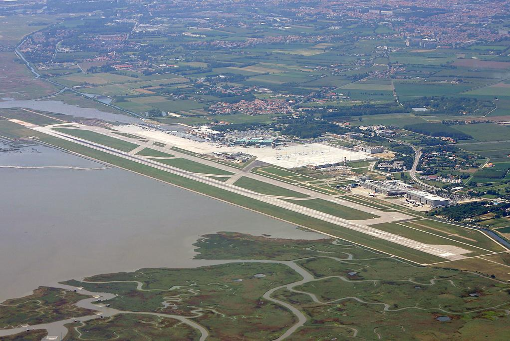 Marco Polo Airport in Venice, Italy. Photograph taken in 2008 from an Air Europa plane.